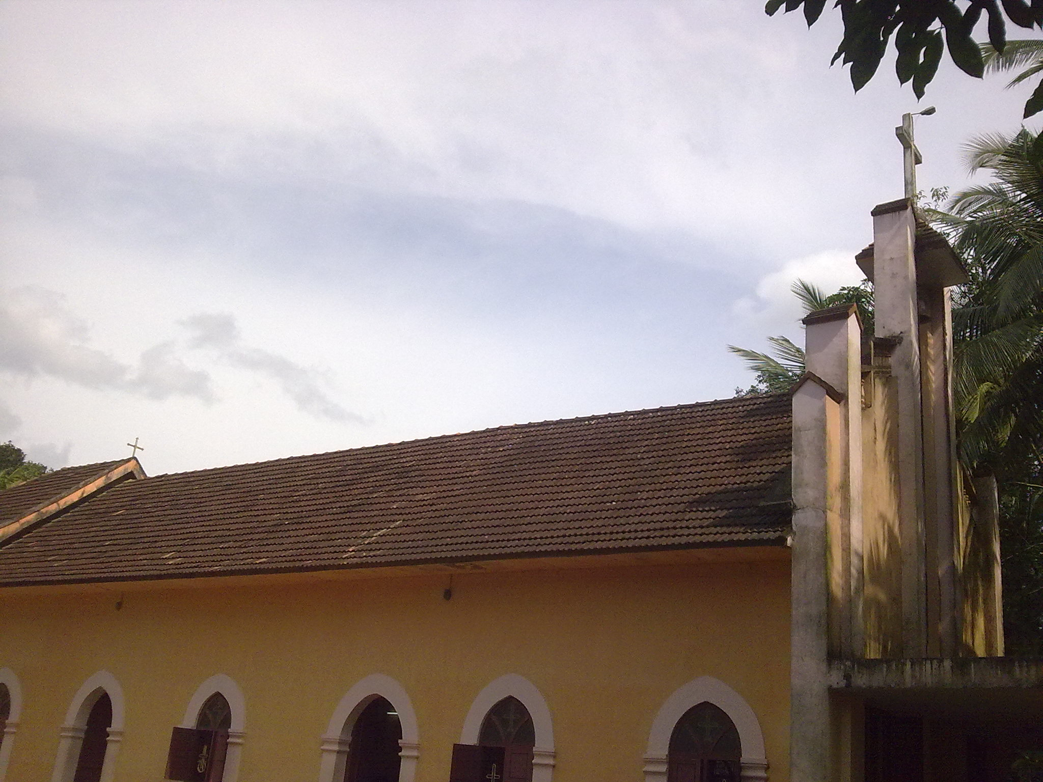 Arohana Marthoma Church is a church situated in Anicadu Village,5km from Nedumkunnam and 4 km from Mallappally in Pathanamthitta district in the southern part of Kerala, India.